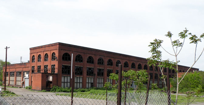 Picture of the Pittsburgh and Lake Erie Railroad Locomotive Shops located by the railroad tracks at the end of Linden Avenue in McKees Rocks, Pennsylvania, on May 1, 2010. Built by the Pittsburgh and Lake Erie Railroad in 1903, it looks as if these locomotive shops have fallen into disrepair. I'm not sure if these shops are still in use by the railroad or not. Architects and builders: H. L. Turner (superintendent), Albert Lucius (consulting engineer), McClintic-Marshall Construction Company.